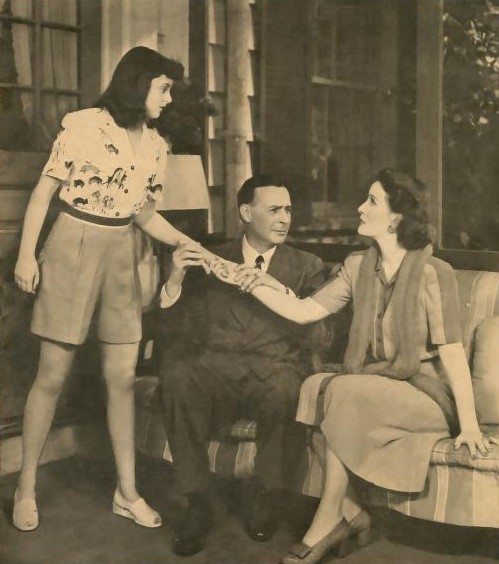 L. to R. : Patricia Kirkland, Clay Clement & Katherine Warren in the F. Hugh Herbert play's Kiss and Tell, Harris Theatre, Chicago - publicity still cropped (Chicago Stagebill cover)